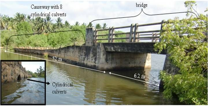 Existing situation of the causeway with 8 cylindrical culverts and the partial bridge at Kapuhenwala, Rekawa Lagoon